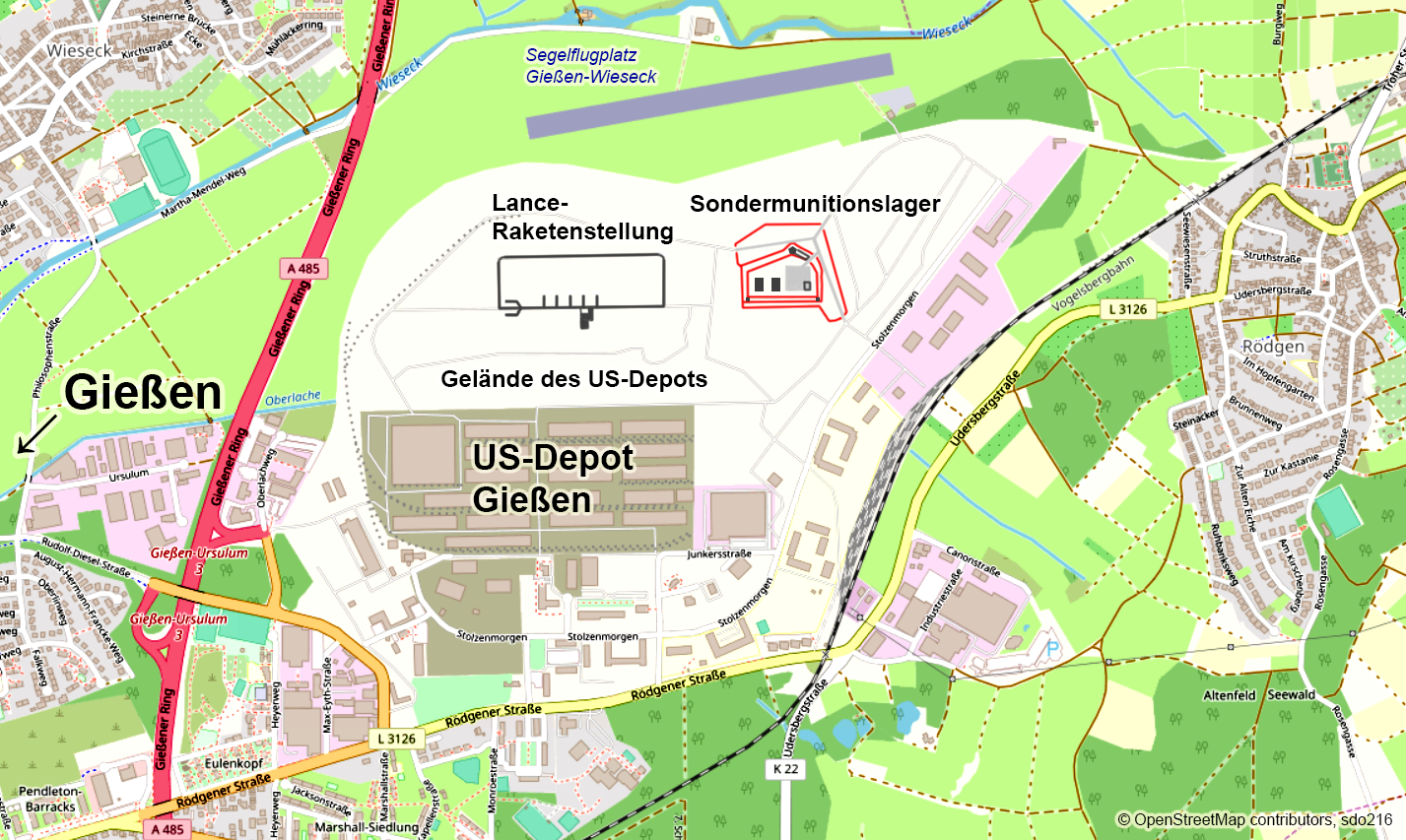 Special Ammunition Storage (SAS) Giessen, Hesse, Germany; location of the SAS (with nuclear warheads) and the Lance missile site within the range of the former US Depot Giessen; Segelflugplatz: glider airfield, Raketenstellung: missile site, Sondermunitionslager: Special Ammunition Storage (SAS), Gelände: compound This map may be incomplete, and may contain errors. Don't rely solely on it for navigation.